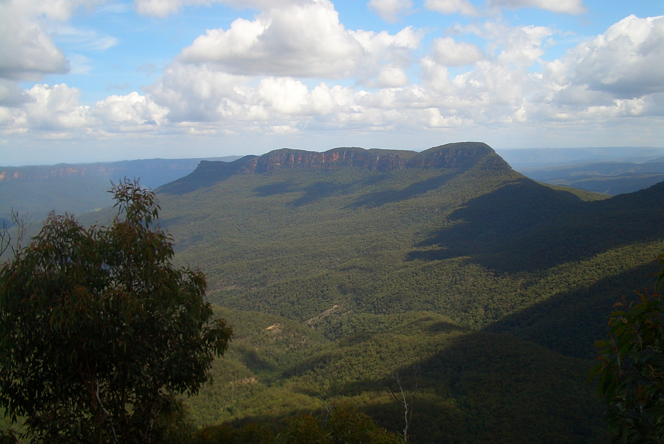 Mount Solitary, seen looking SW from Landslide Lookout, on the SW outskirts of Katoomba. Jamison valley ends at the plateau (which, on the right, has its "narrow neck", which connects it to Katoomba); Megalong Valley (not visible much in this picture) is beyond the "neck".